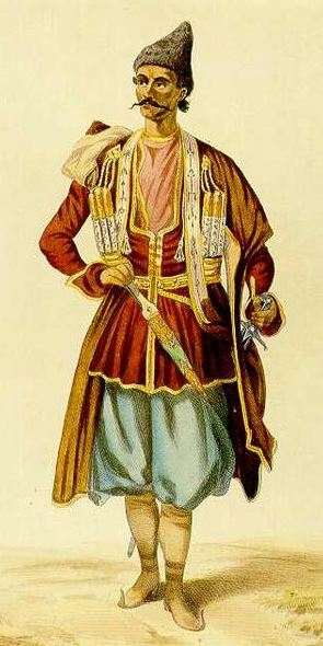 Bek from Karabakh. Painting by Russian artist Grigory Gagarin (1811 - 1893).